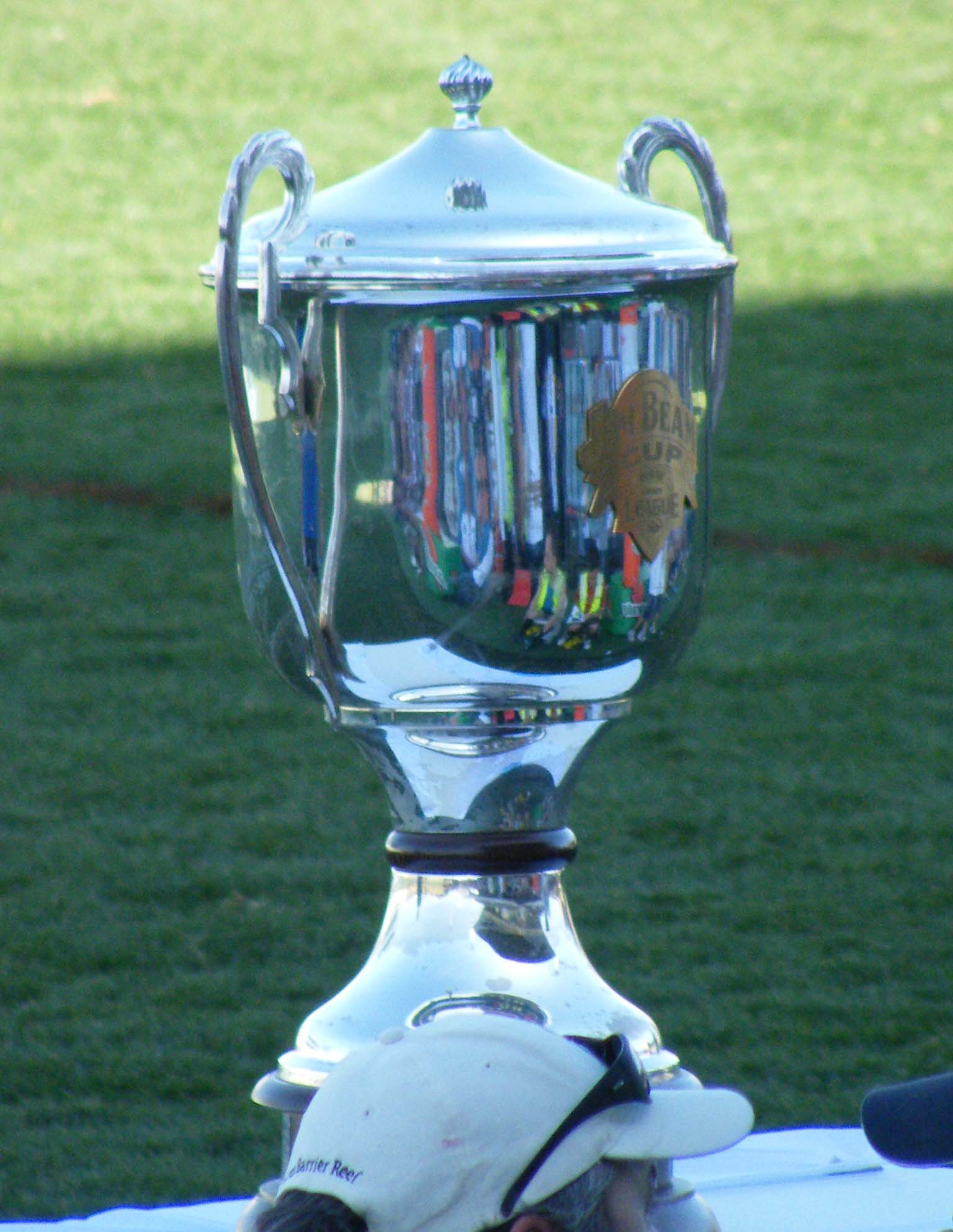 Jim Beam Cup Grand Final - Campbelltown Stadium 2008